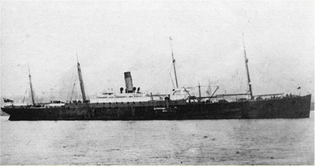 SS Georgic (I) of White Star Line, in the River Mersey.